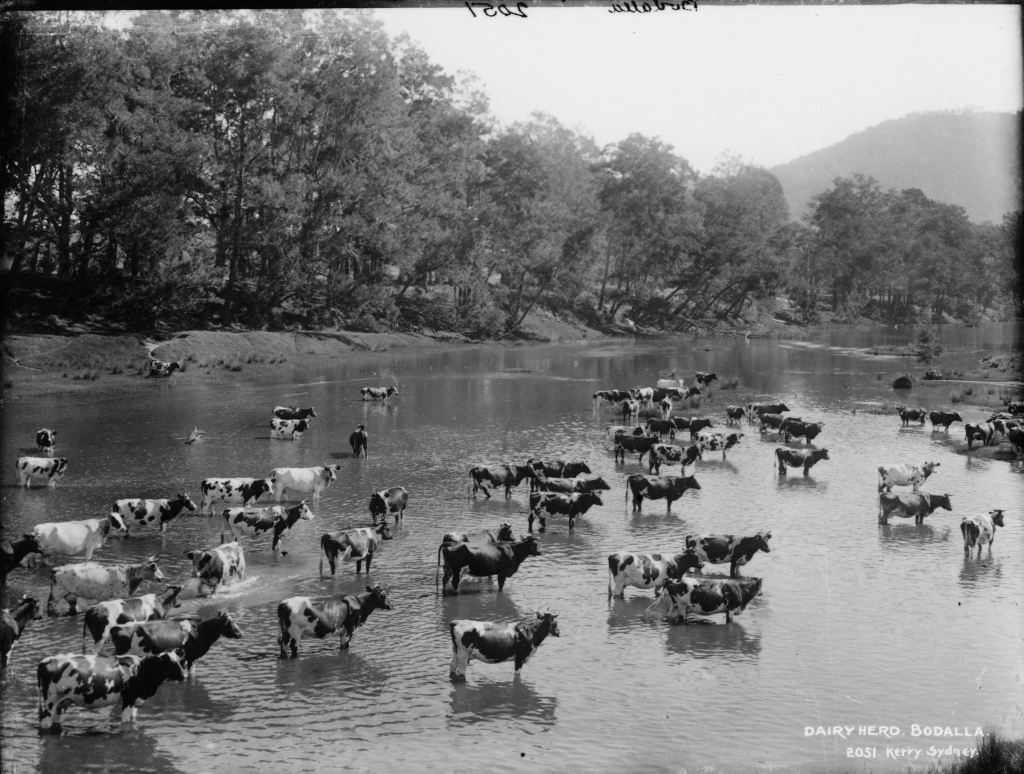 'Rural Life' Pictures from The Powerhouse Museum This file was posted to Flickr by The Powerhouse Museum (See the archive of their website for further information). Many thanks to the Powerhouse Museum for helping release this wonderful material. This tag does not indicate the copyright status of the attached work. A normal copyright tag is still required. See Commons:Licensing for more information.